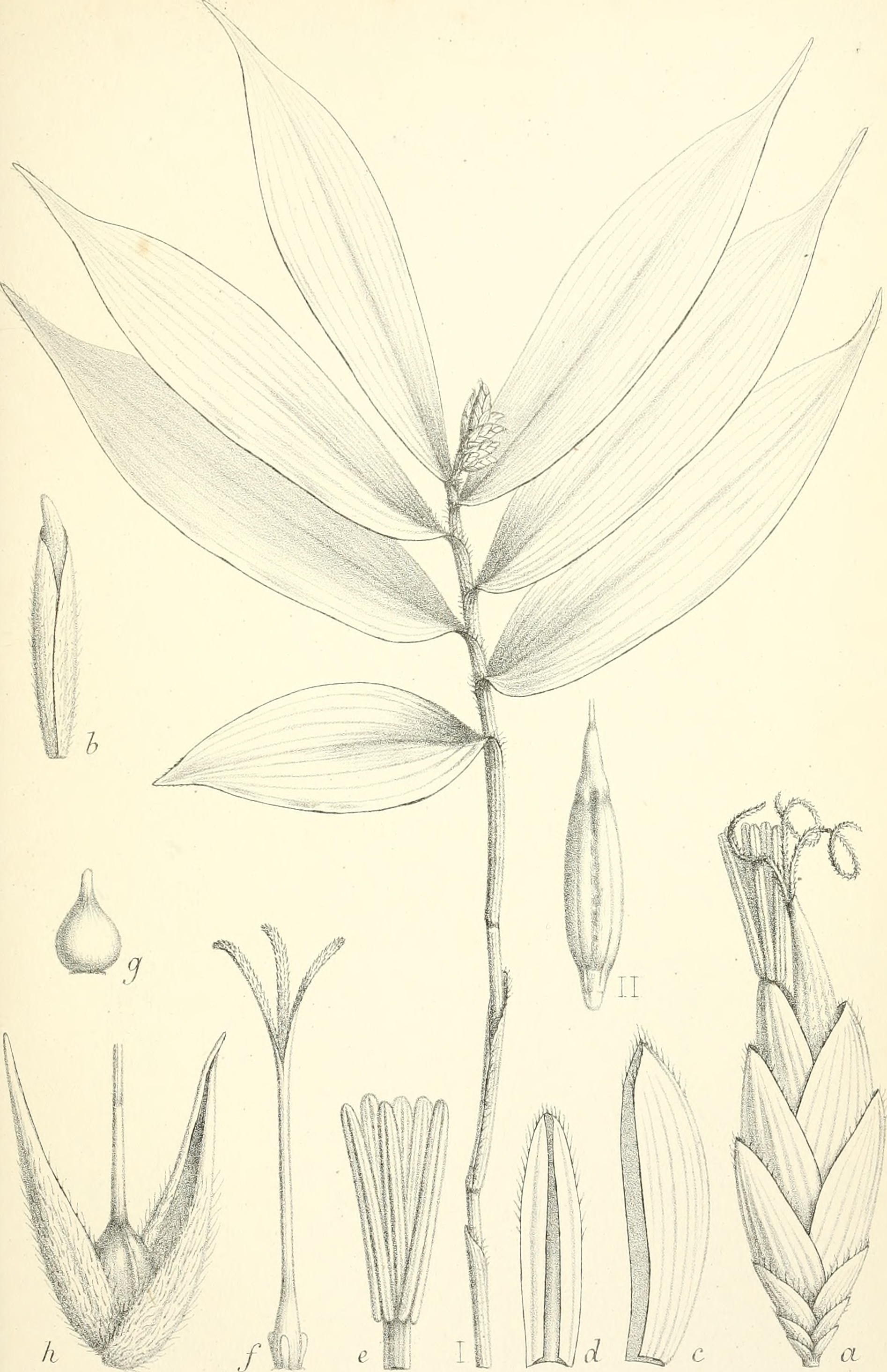 Title: Bulletin Year: 1888-1949 (1880s) Authors: Socit d'histoire naturelle d'Autun (France) Subjects: Socit d'histoire naturelle d'Autun (France); Natural history; Natural history -- France Publisher: Autun : La Socit Text Appearing Before Image: Soc. H^." Nat. d'Autun, PI. IX. Text Appearing After Image: B. Henncq del.et lith. Imp.Edouard Bry, Paris. \ I. PUBLIA CILIATA Francli. II. ATRACTOCARPA OLYRAEFOLIA FrancP.